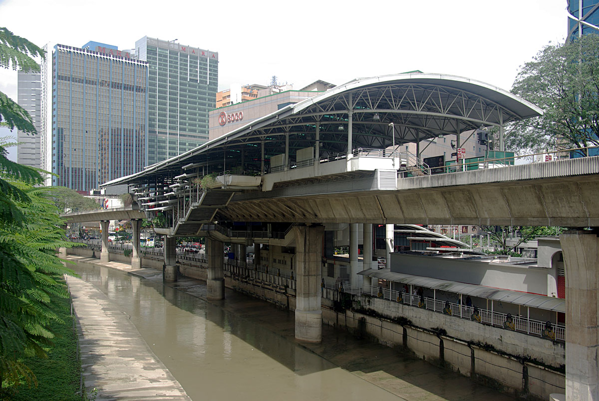 LRT-Station ST6 - Bandaraya, Kuala Lumpur